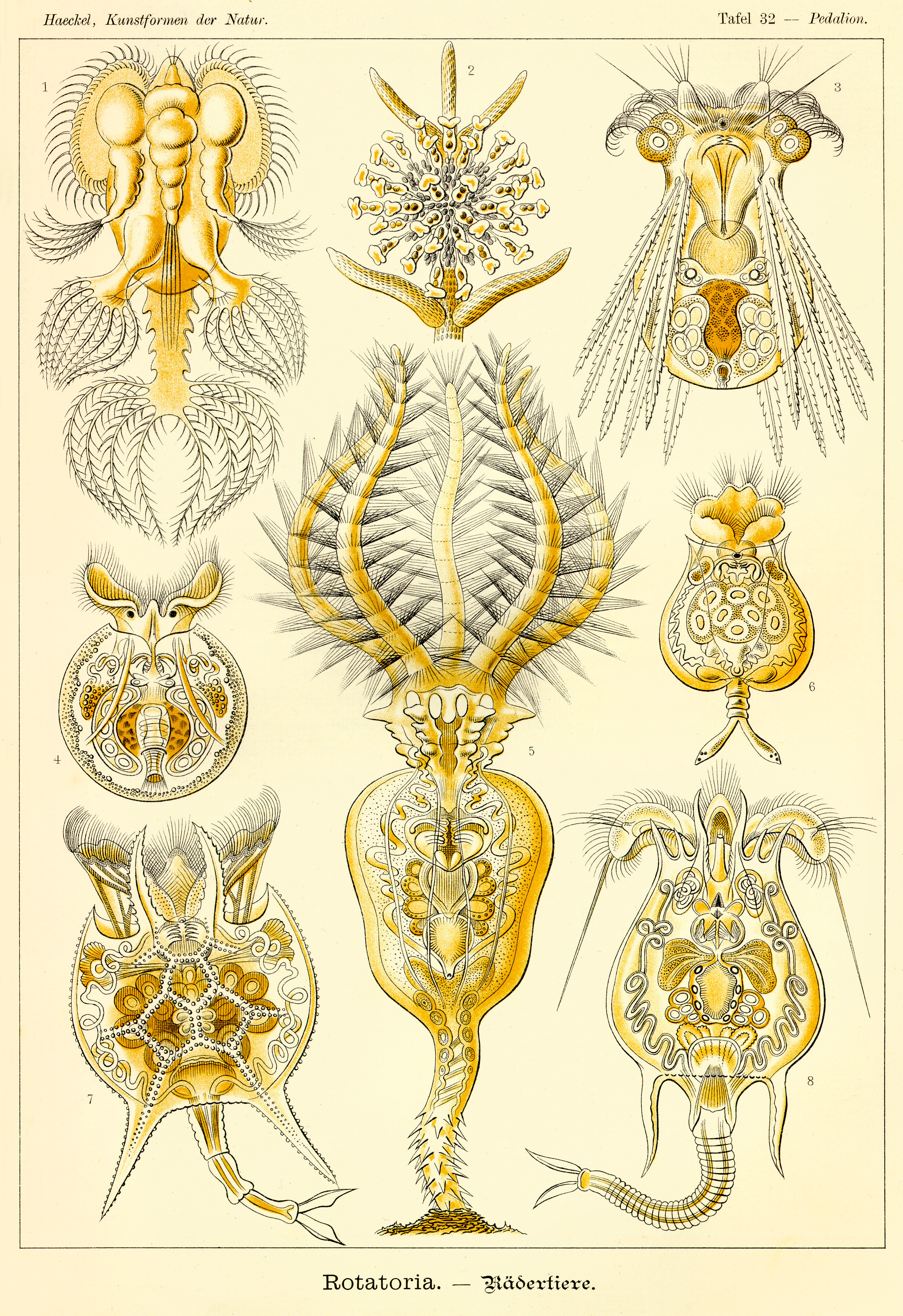 (top left): Pedalion mirum (Hudson) = Hexarthra mira (Hudson, 1871), from above (top center): Lacinularia socialis (Ehrenberg) = Lacinularia flosculosa (O.F.Muller, 1773), group of individuals on water plant (top right): Polyarthra platyptera (Ehrenberg) = Polyarthra sp., from above (left): Pterodina patina (Ehrenberg) = Testudinella patina (Hermann, 1783), from above (center): Stephanoceros Eichhornii (Ehrenberg) = Stephanoceros fimbriatus (Goldfuss, 1820), from the side (right): Euchlanis dilatata (Leydig) = Euchlanis dilatata Ehrenberg, 1832, from above (bottom left): Noteus Leydigii (Haeckel) = Platyias quadricornis (Ehrenberg, 1832), from above (bottom right): Brachionus Bakeri (Ehrenberg) = Brachionus quadridentatus Hermann, 1783 / Brachionus capsuliflorus Pallas, 1766, from above